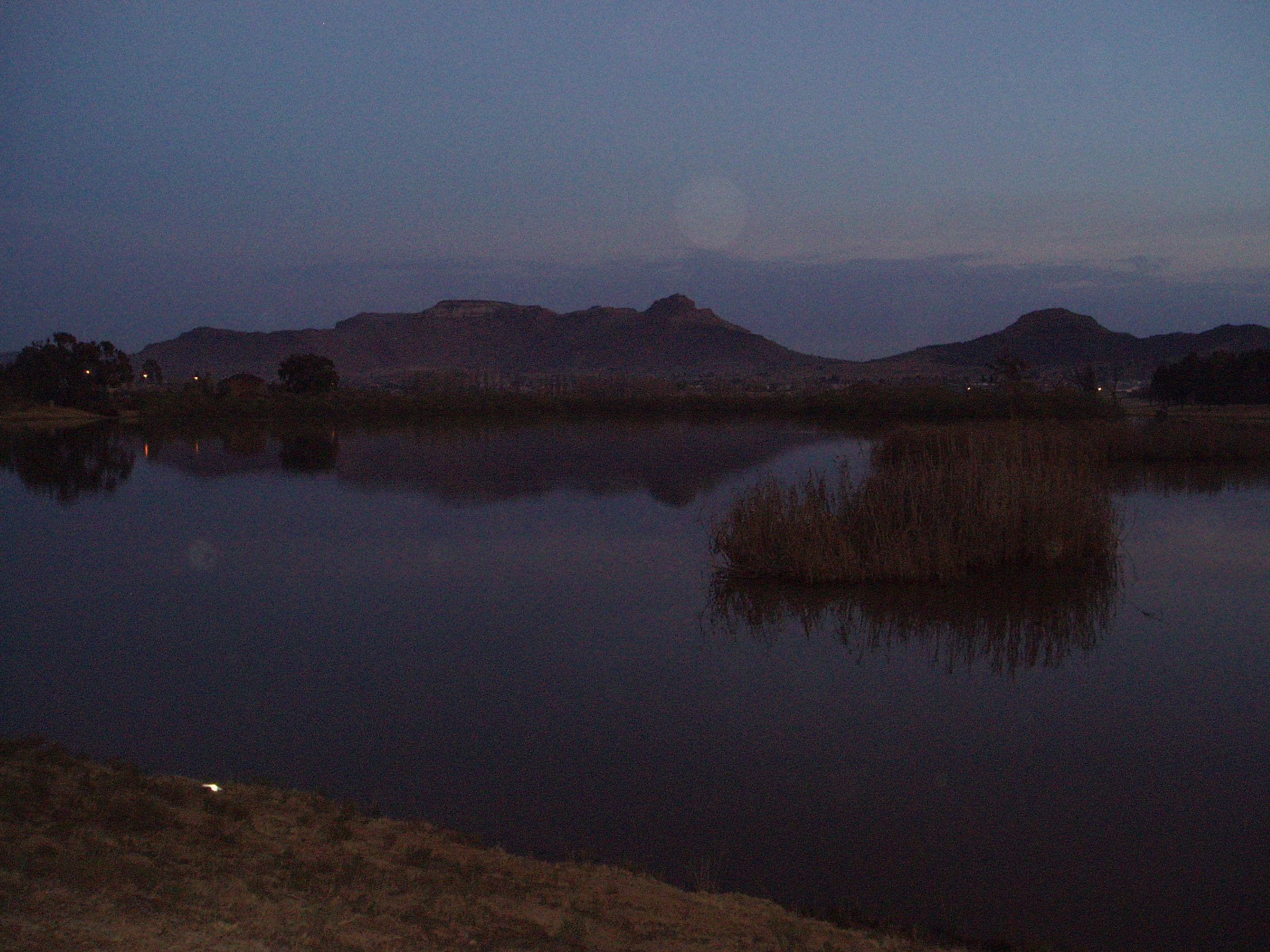 The Old Osborne Mill (upper left). self made photograph